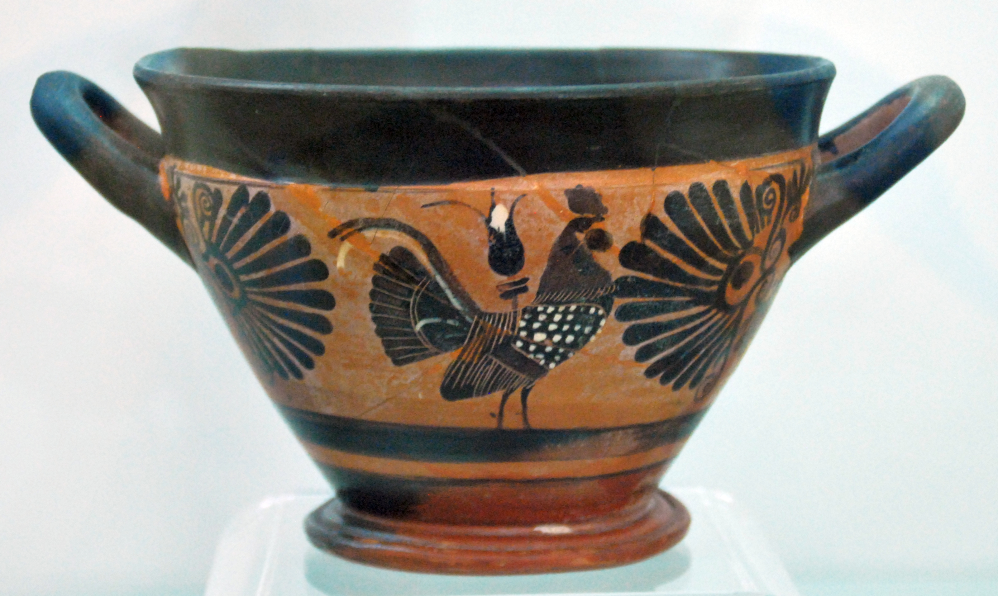 Attic black-figure Skyphos depicting a cock between palmettes. About 530/20 BC. Antikensammlung Kiel, inventory number B 40.